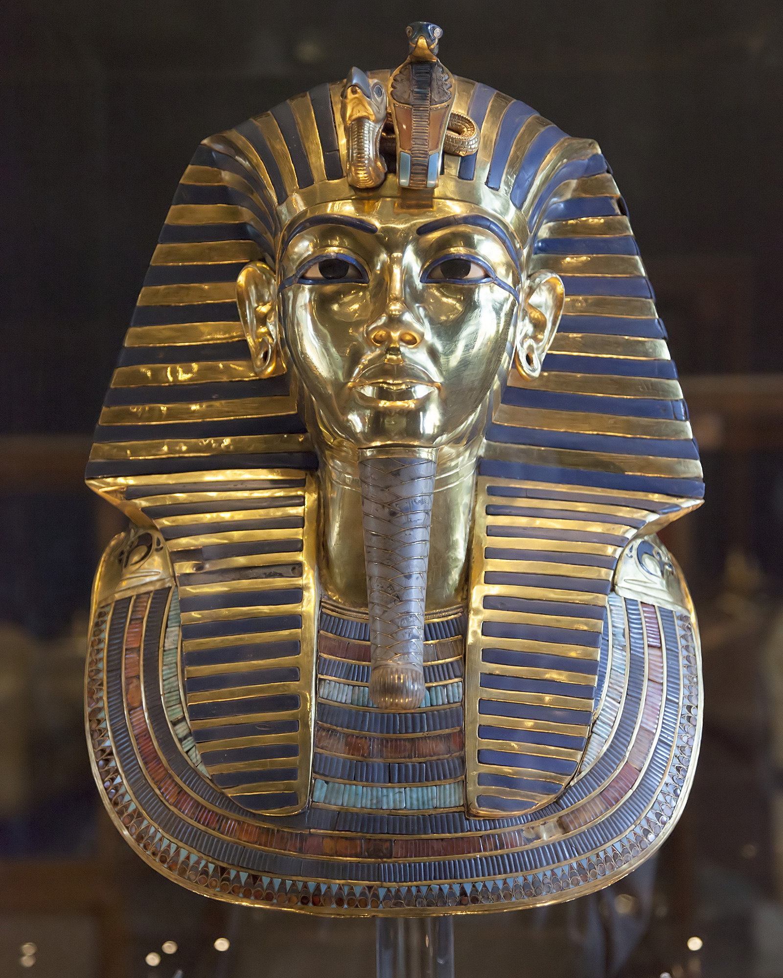 Since January 1, 2016 it is possible again to take photographs in the Egyptian Museum in Cairo. The funerary mask of Tutankhamun is certainly the most demanded exhibit.